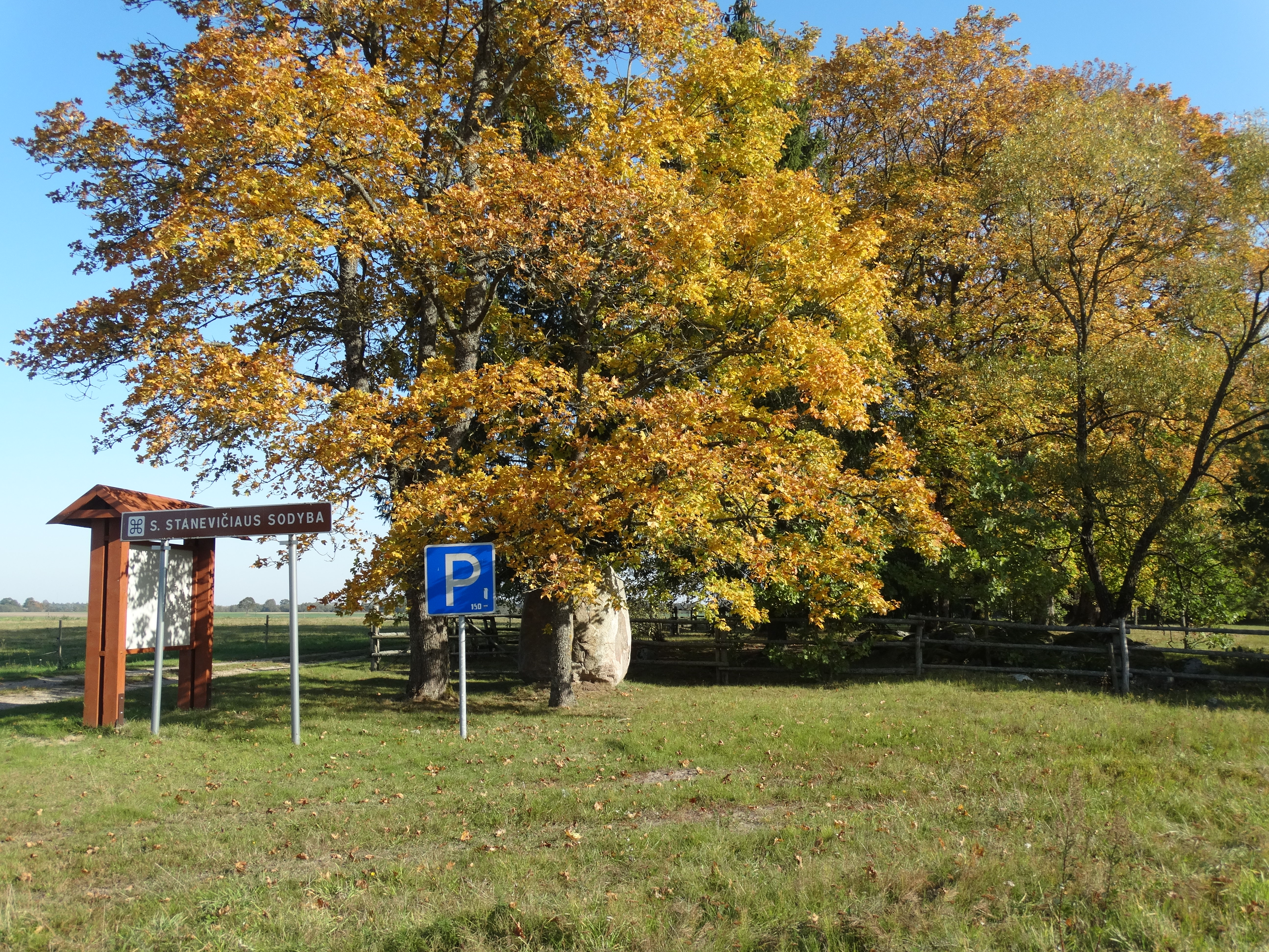 Simonas Stanevičius native homestead, Kanopėnai, Raseiniai district, Lithuania